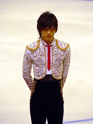 Ryo Shibata during the men's medals ceremony at the 2005 Junior Grand Prix event in Croatia